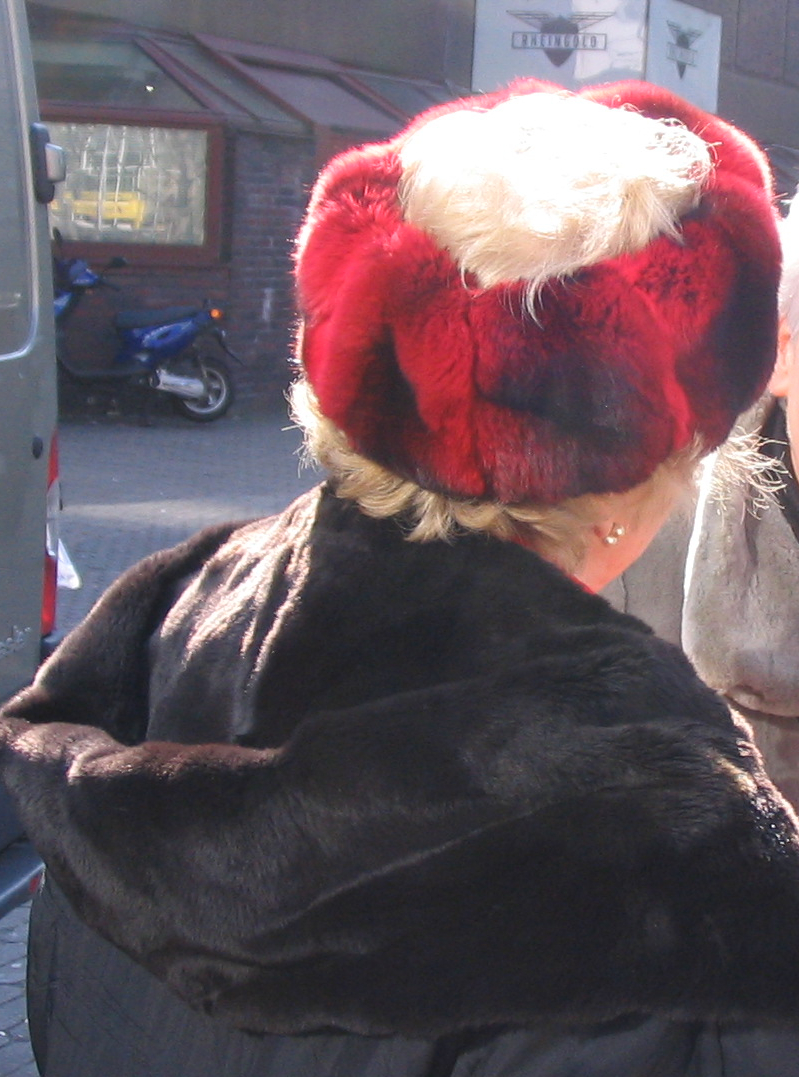 Chinchilla fur headband, dyed